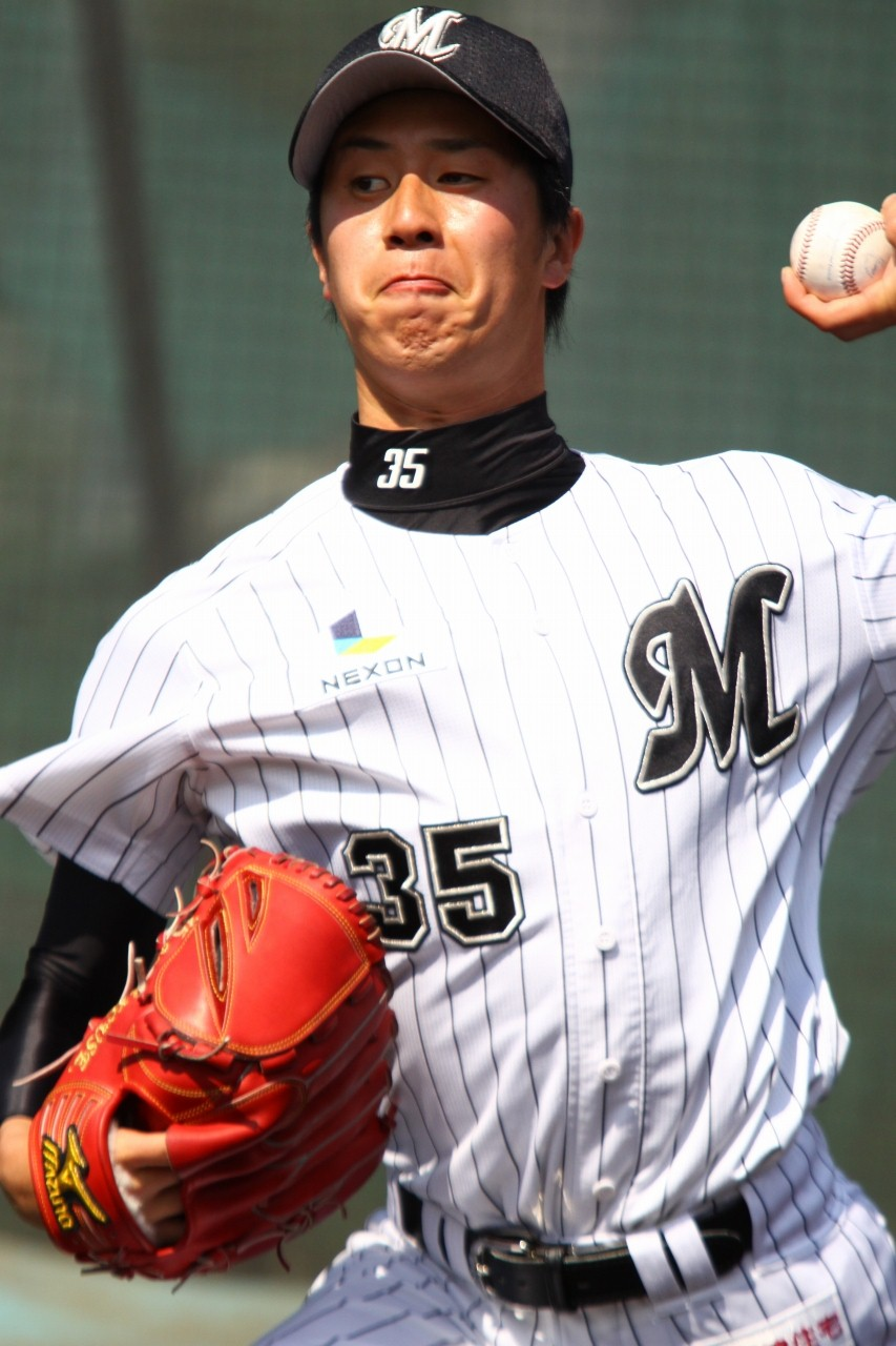 Toshiki Tsuboi, pitcher of the Chiba Lotte Marines.